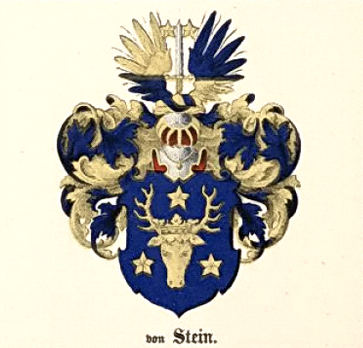 Coat of arms of Stein family